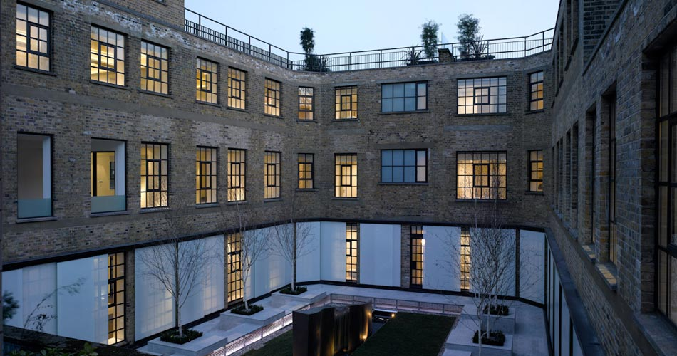 Photo of The Brassworks